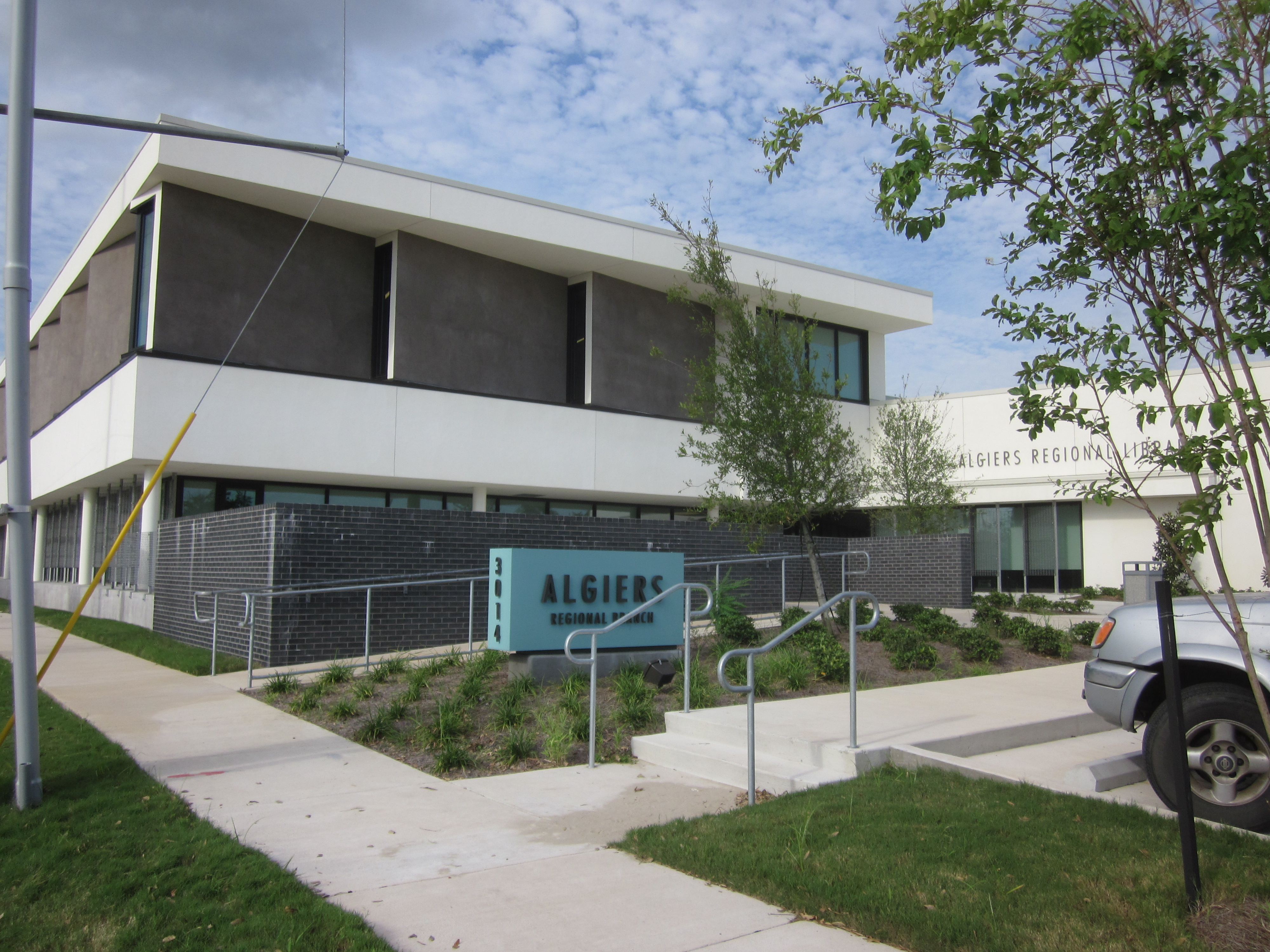 Algiers section of New Orleans, Louisiana. New Algiers Regional Branch Library Building.